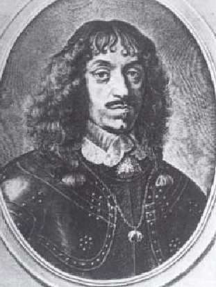 King John II Casimir - engraving by Willem Hondius according to not-existing portrait by Daniel Schultz.